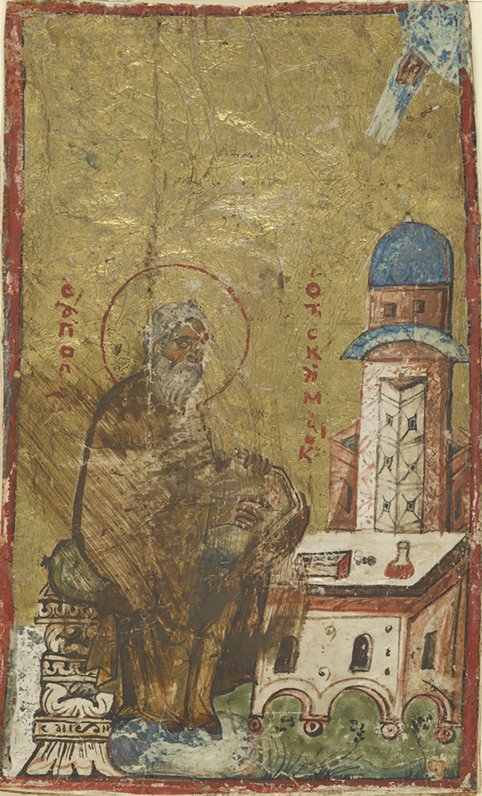 St. John of the Ladder (Climacus): illustration from a Klimax manuscript early 12th century Opaque watercolor and gold on paper H: 17.2 W: 10.5 cm Gift of Charles Lang Freer F1909.151